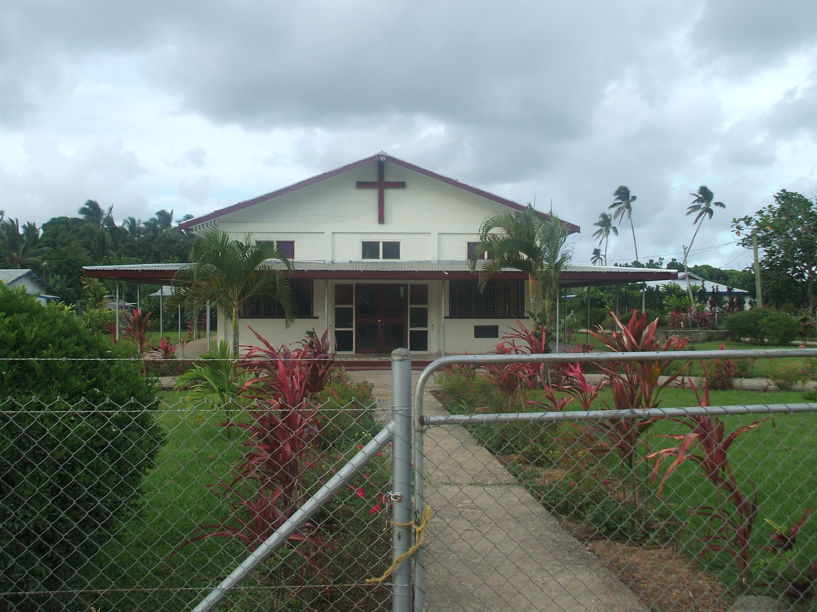 Free Wesleyan Church of Tonga at 'Utulau, Tongatapu, Tonga.